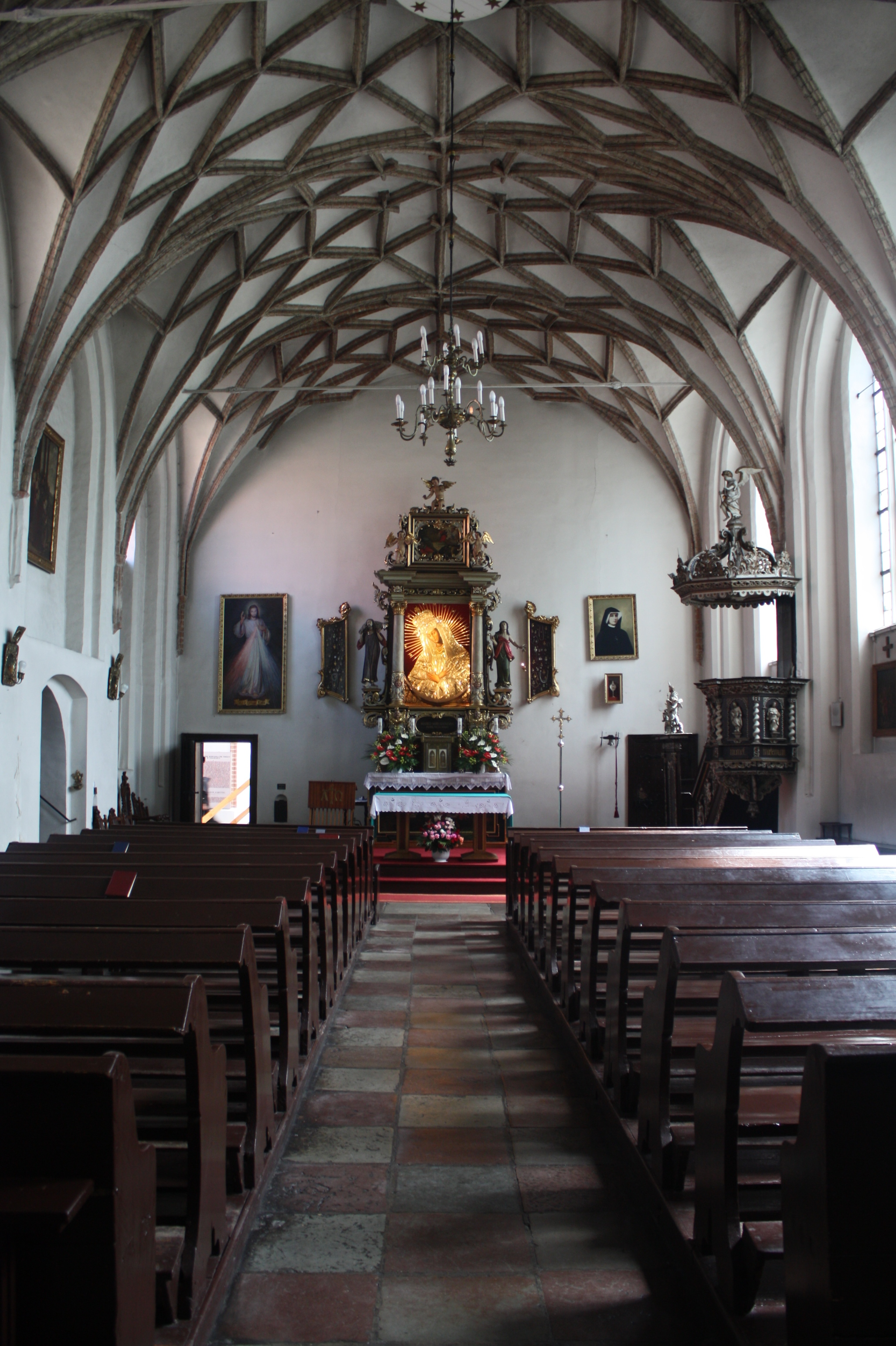 Gdańsk, Church of Saint Trinity